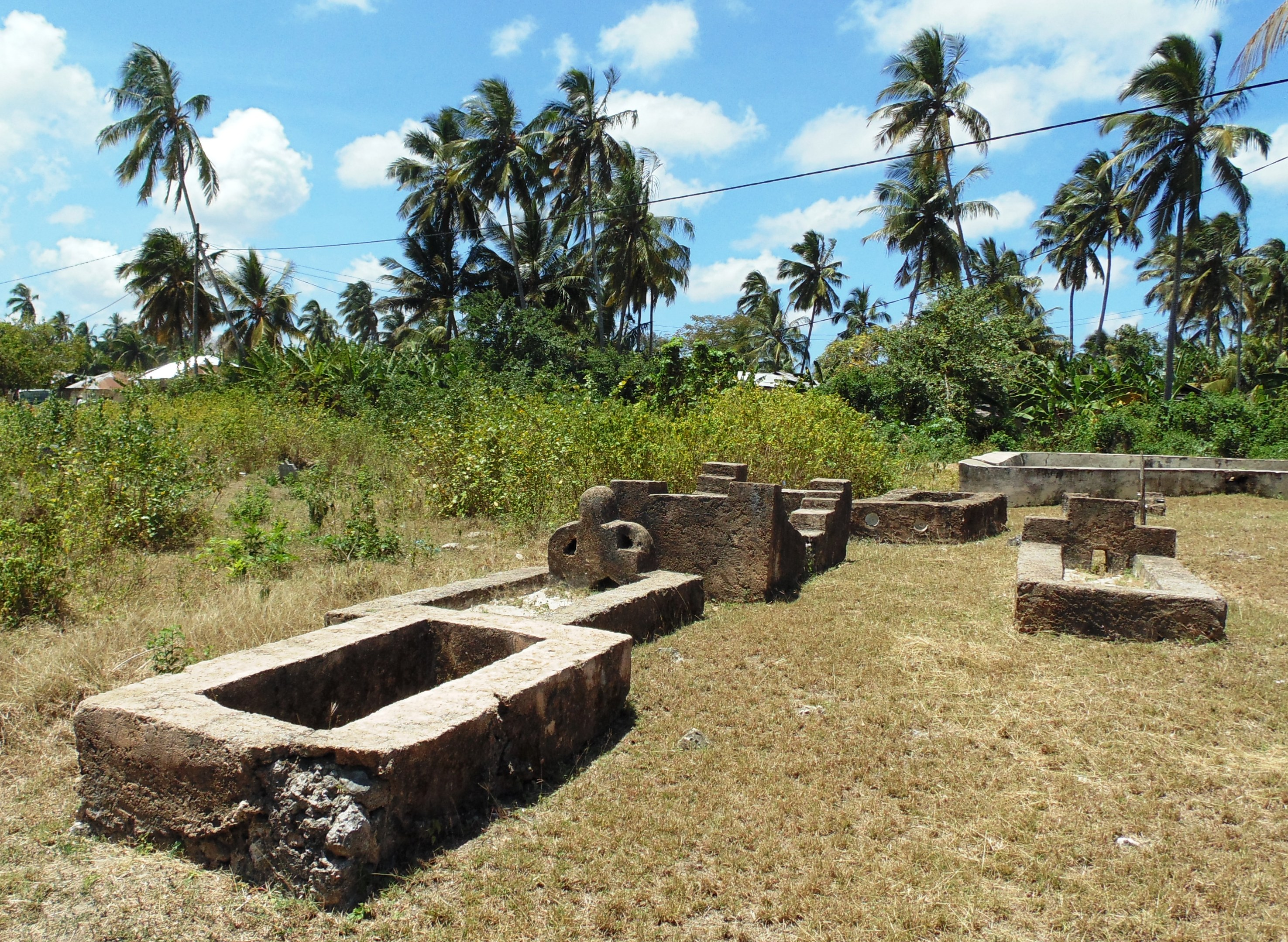 Cemetery near Kizimkazi Mosque